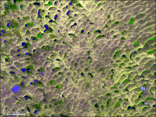 Sand Hills from space, September 2001 (image description).